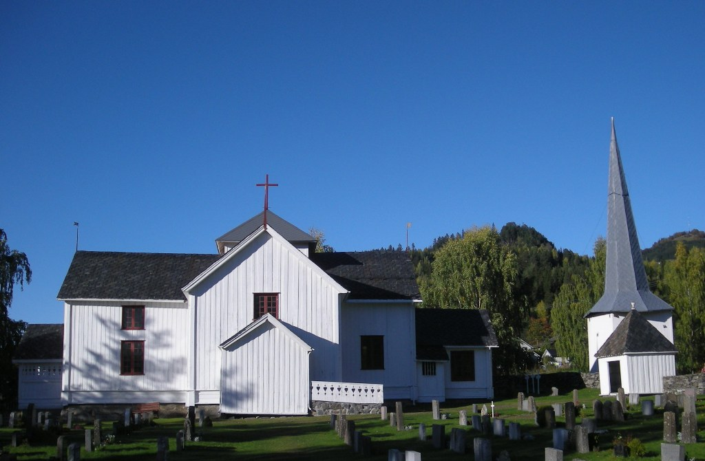 Tretten church